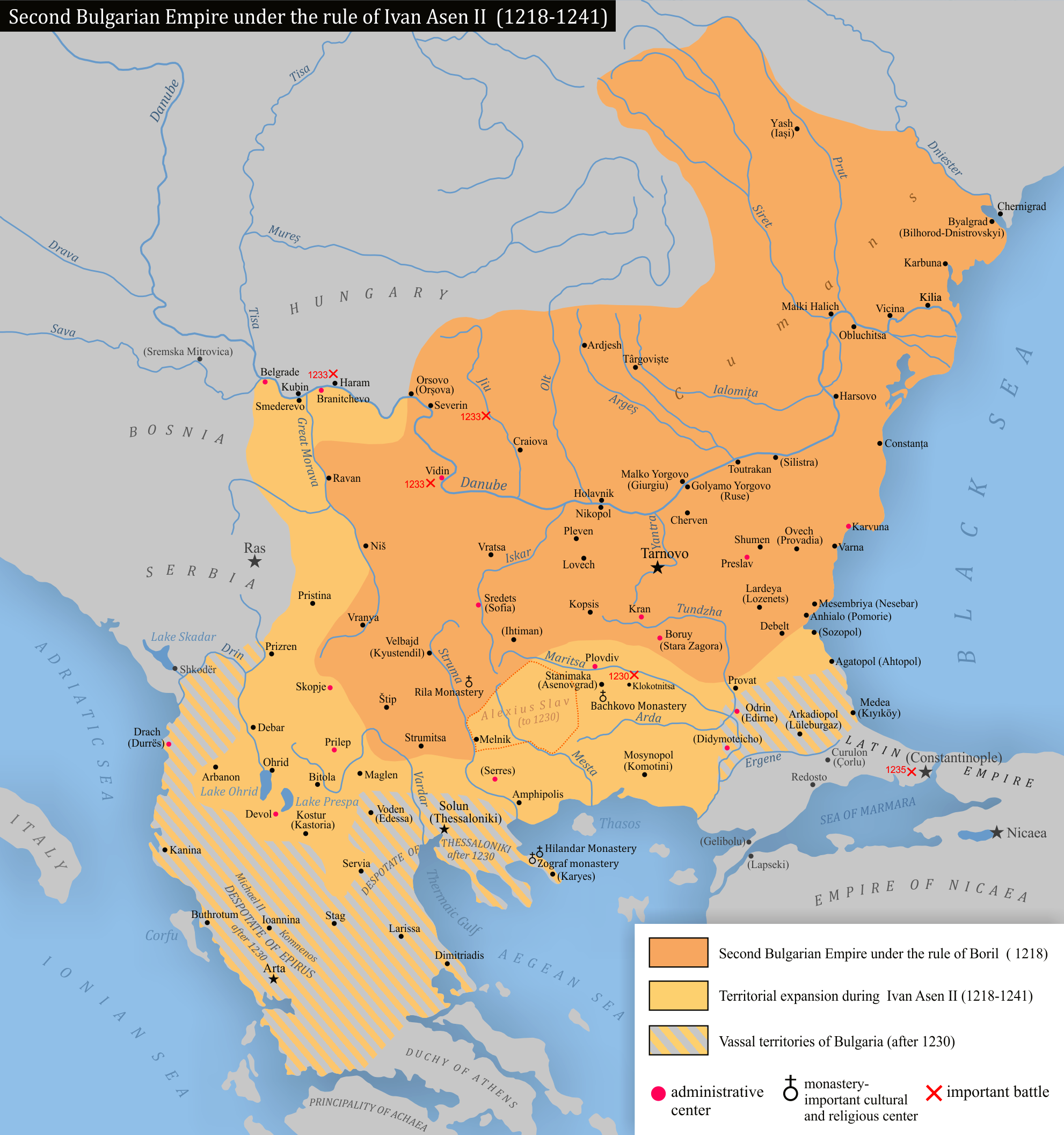 Second Bulgarian Empire under rule of tsar Ivan Assen II.